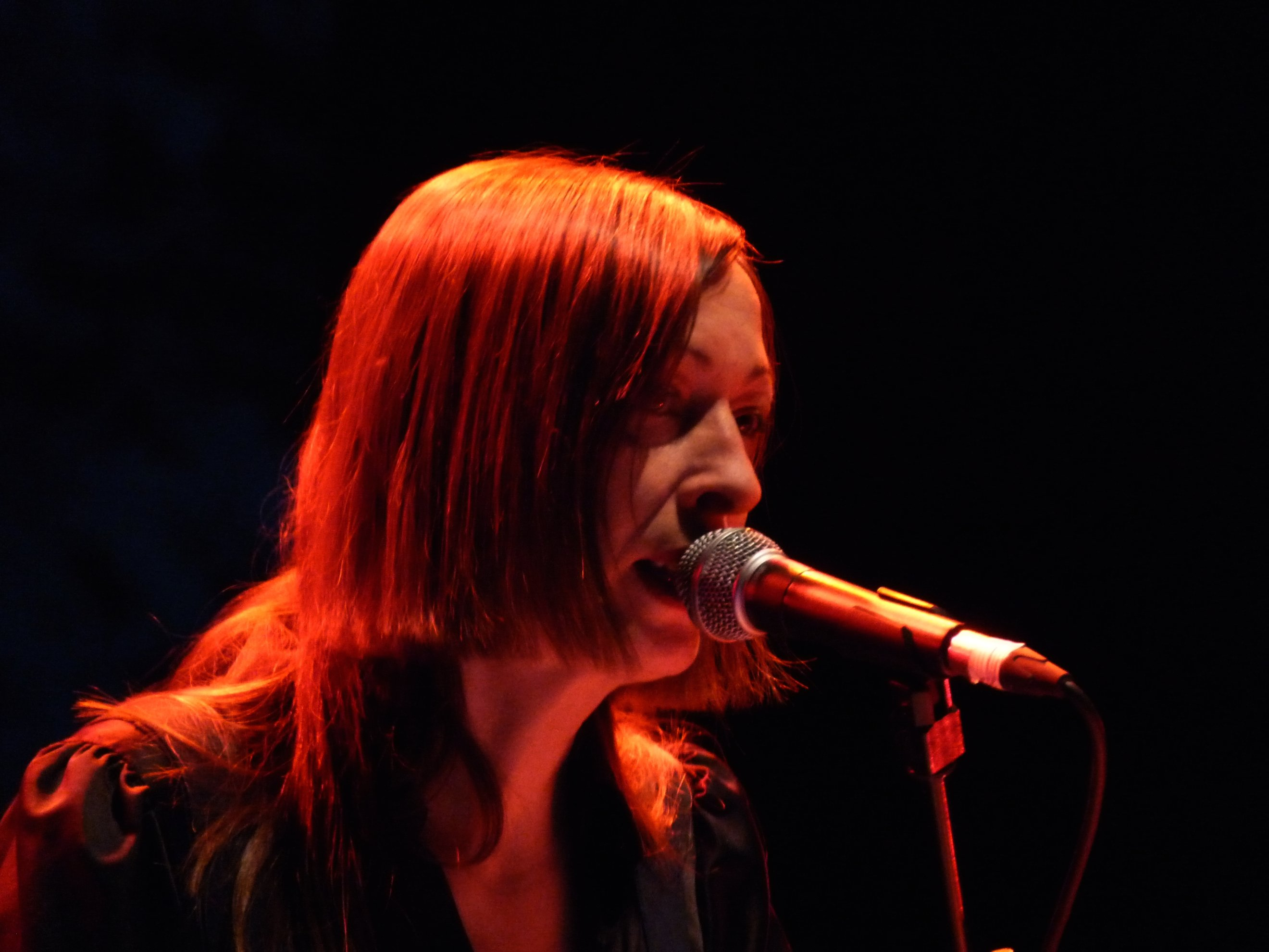 German musician Gudrun Gut at Queen Elizabeth Hall, London (together with Antye Greie, performing their album "Baustelle", see also File:Antye Greie AGF, April 2010, London.jpg)